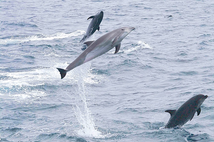 Living in small pods in the world's temperate zones, these dolphins are definitely jumpers. This photo was on a tour of the Galapagos I was leading a few years back...